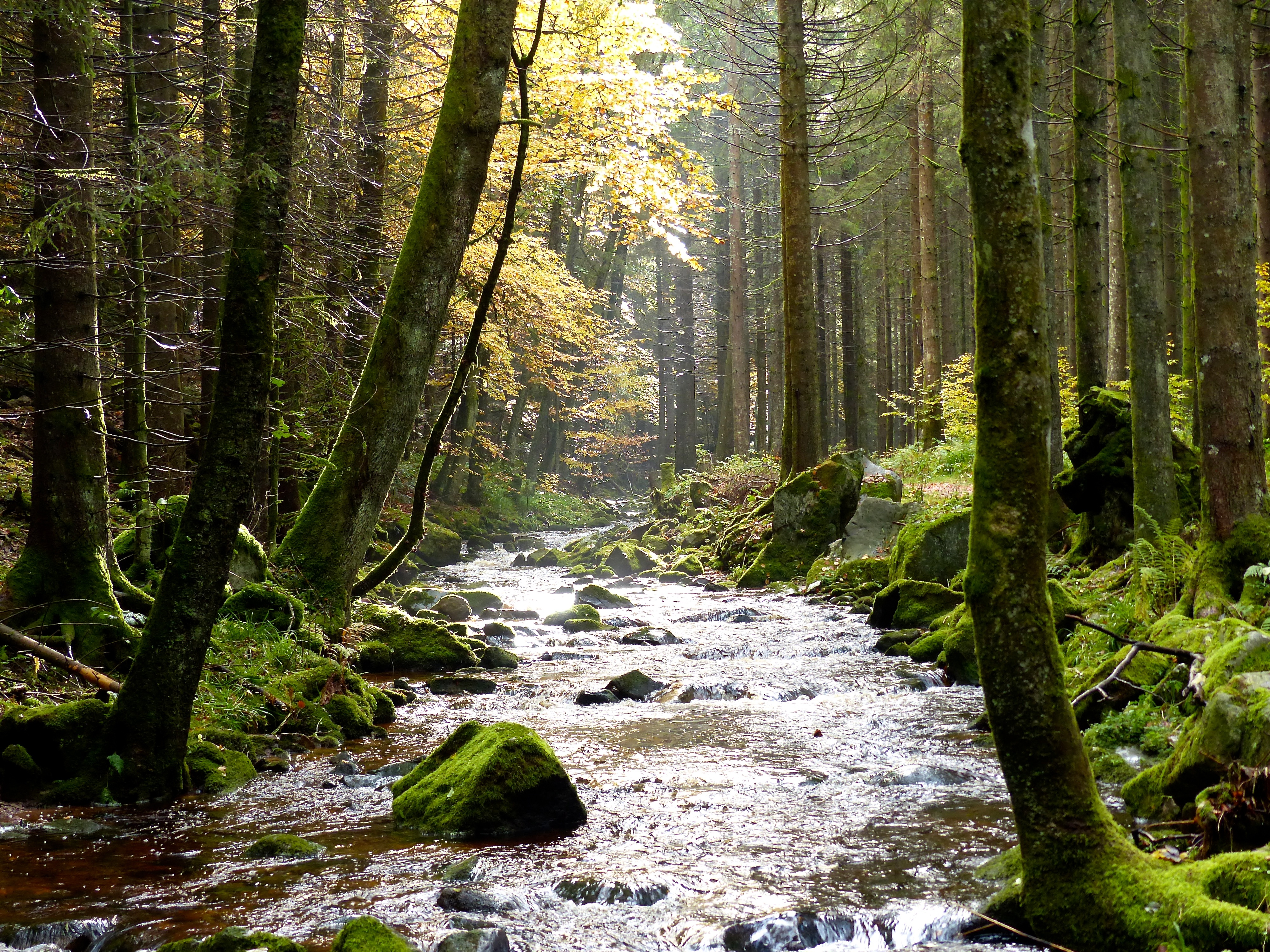 Black Forest: Guter Ellbach, stream near Baiersbronn